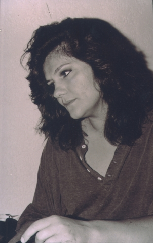 The photo is from music stage PLATO in Thessaloniki